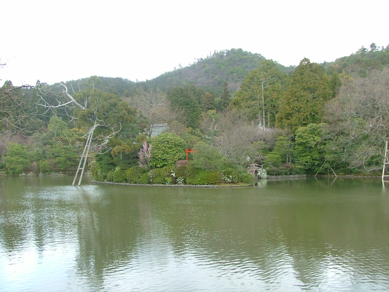 lake of Ryoan-ji temple in Kyoto